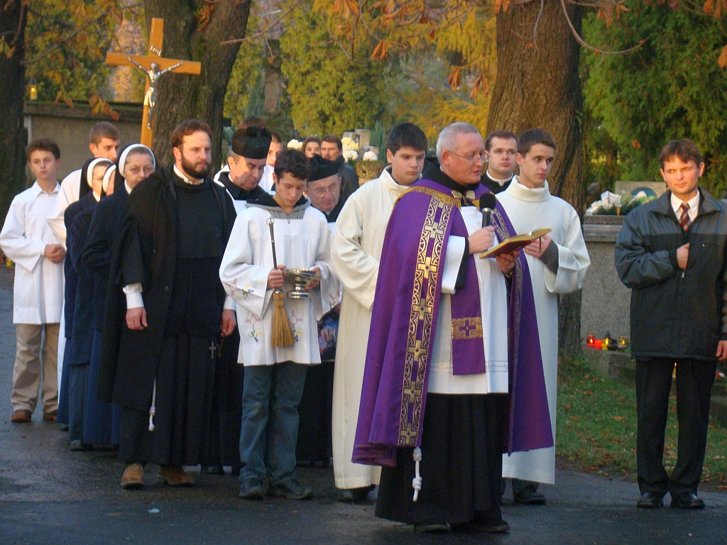 Cemetary of Sanok. 2008